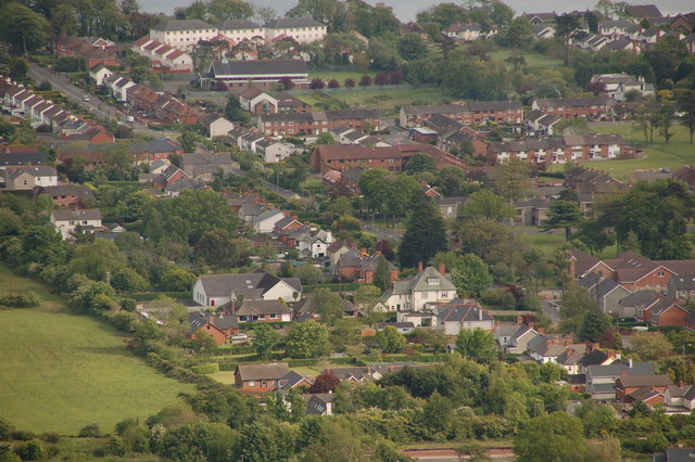 Greenisland seen from Knockagh Greenisland, although part of the borough of Carrickfergus, is very much part of greater Belfast. This is Greenisland as seen from the war memorial at Knockagh. The Station Road runs from top left to bottom right.